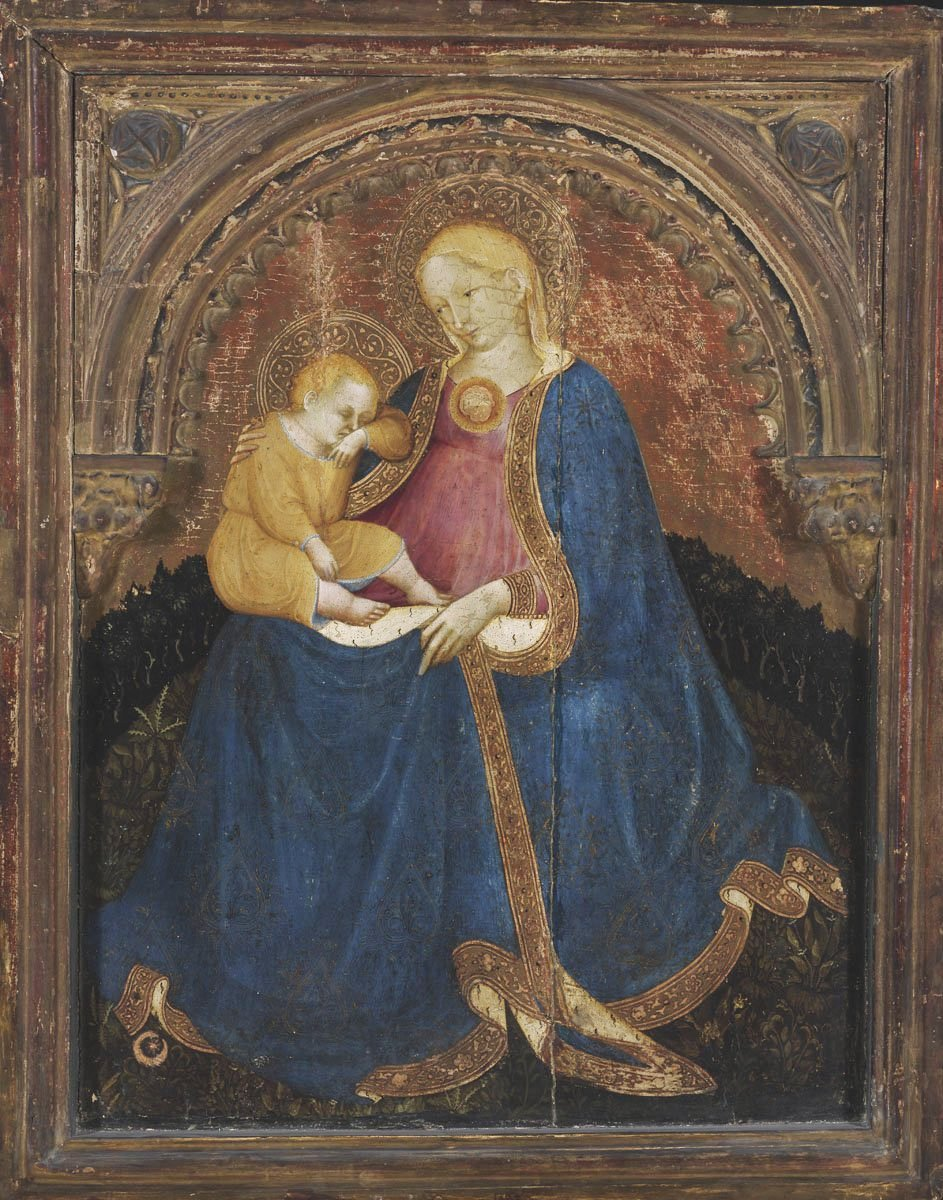 Nicolo di Pietro, Madonna of Humility, ca 1410 Budapest, Fine Art Museum